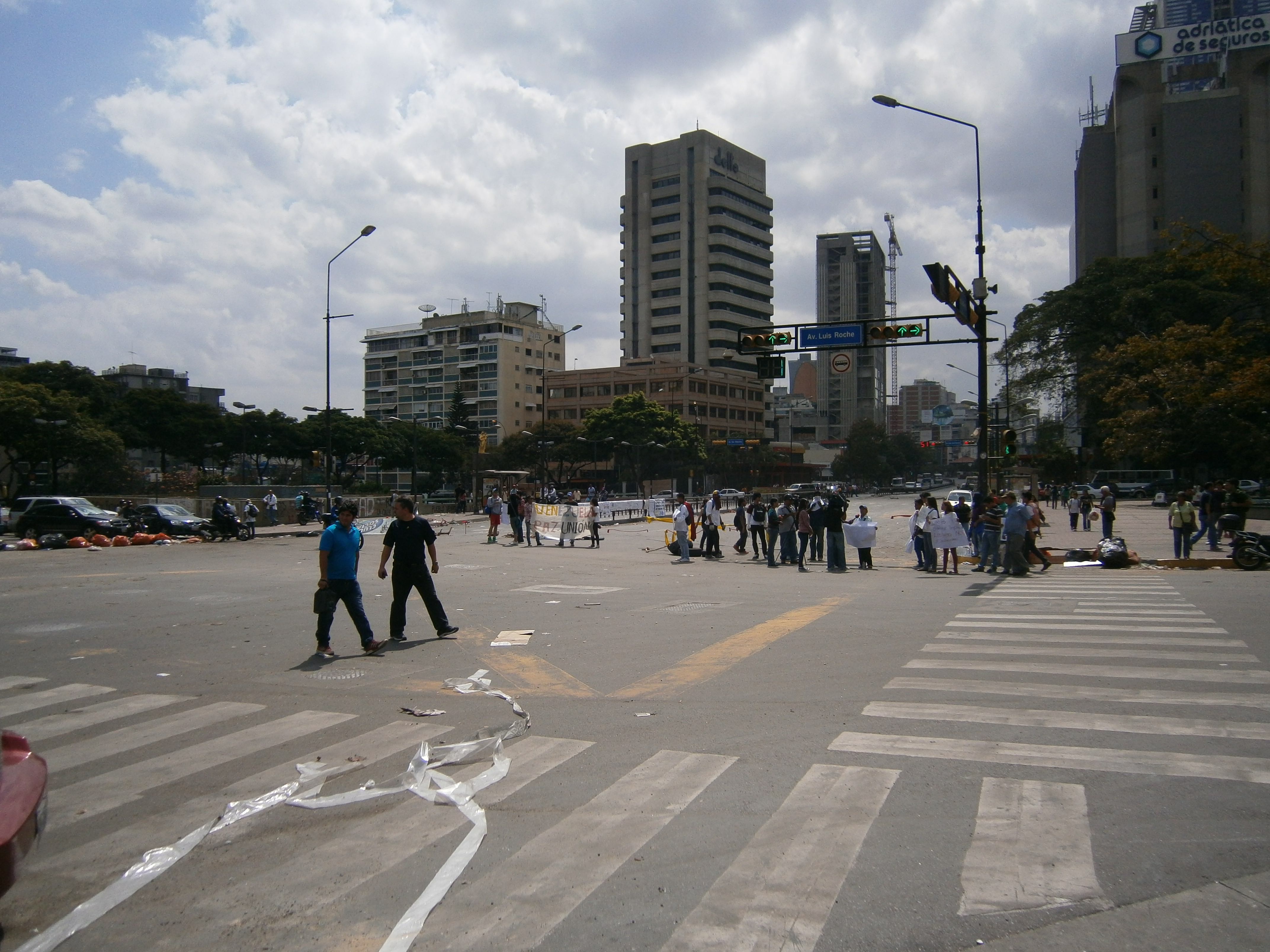 Venezuela protests against the Nicolas Maduro government, in Altamira Square